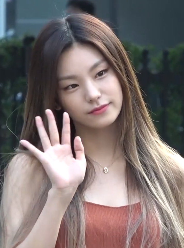 Hwang Ye-ji going to a Music Bank recording on August 8, 2019.